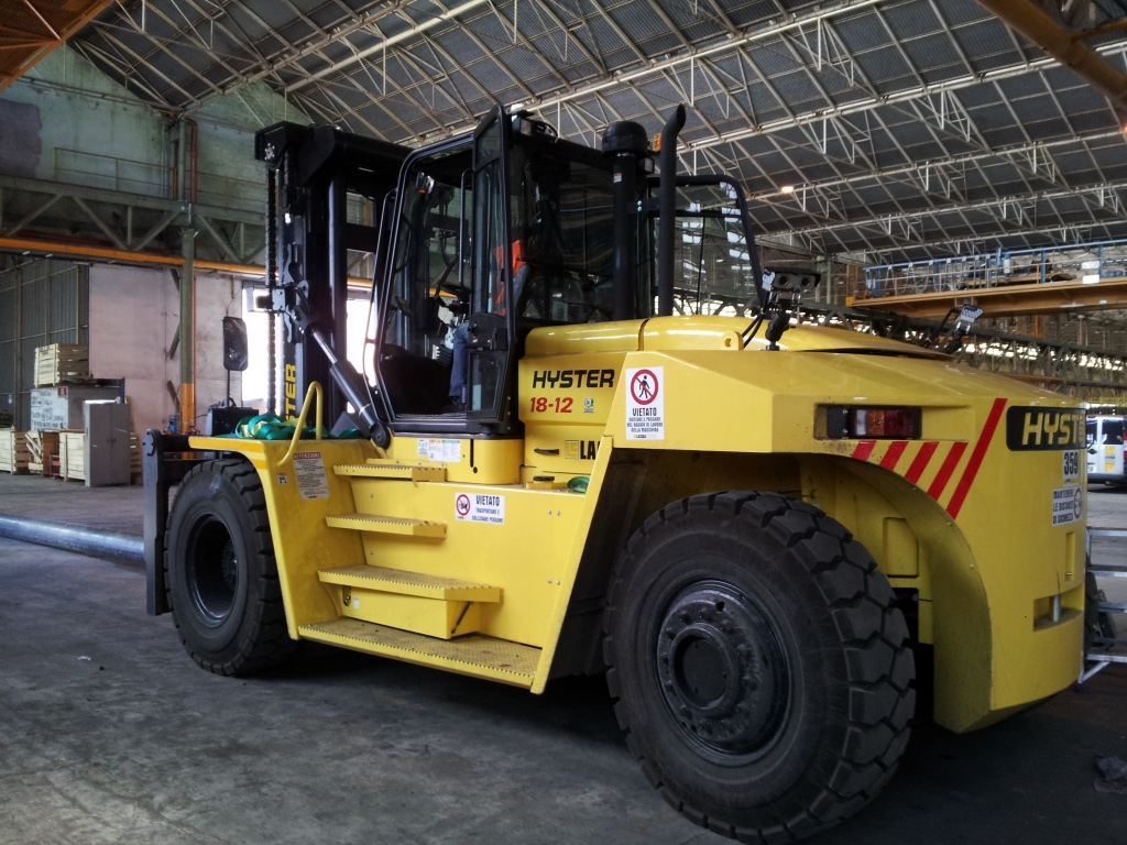 A blaxtair pedestrian detection system on Hyster truck